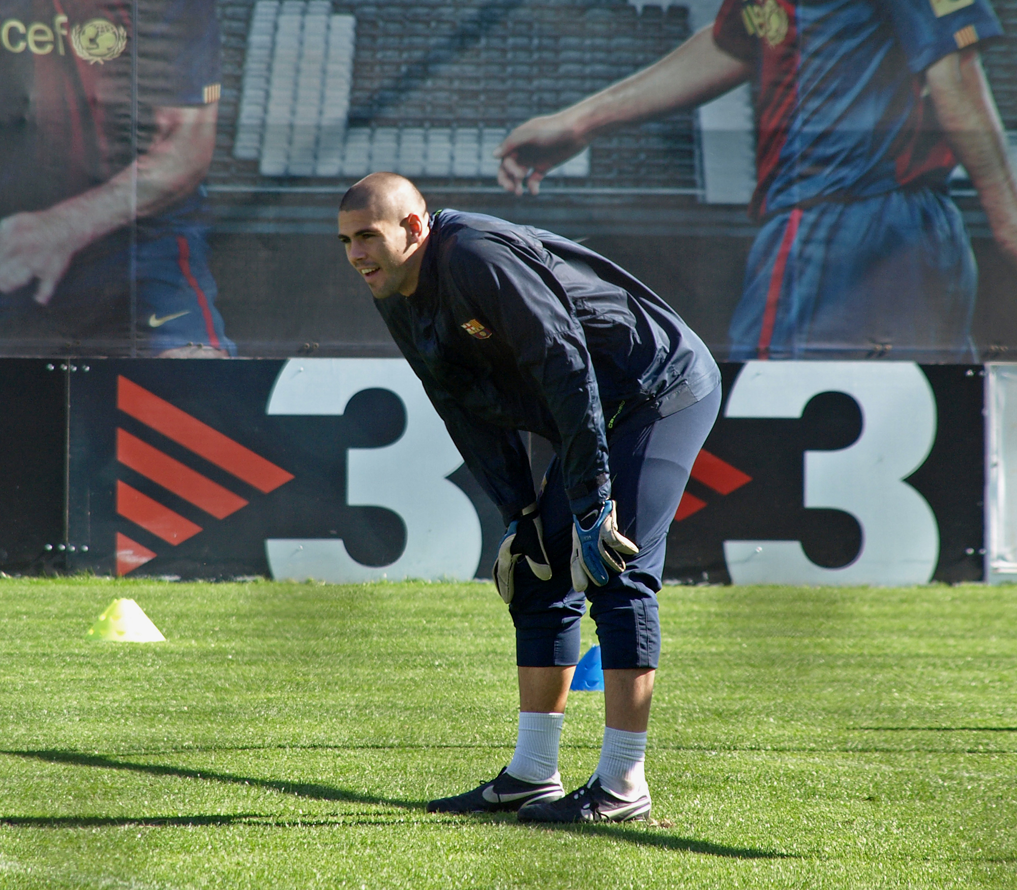 Víctor Valdés (born January 14, 1982 in L'Hospitalet de Llobregat, Catalonia) is a Spanish football goalkeeper, who currently plays for FC Barcelona.